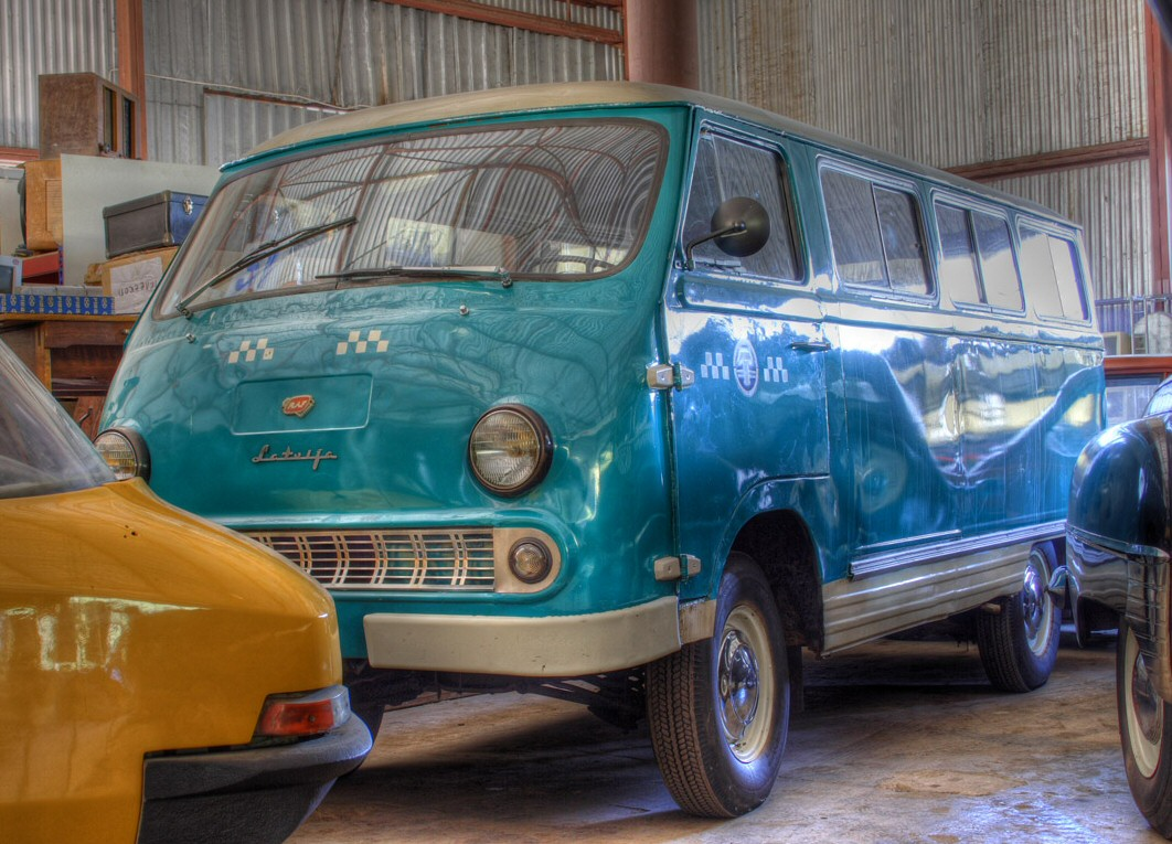 RAF-977DM at Museum of Carriages and Cars, Moscow, Russia